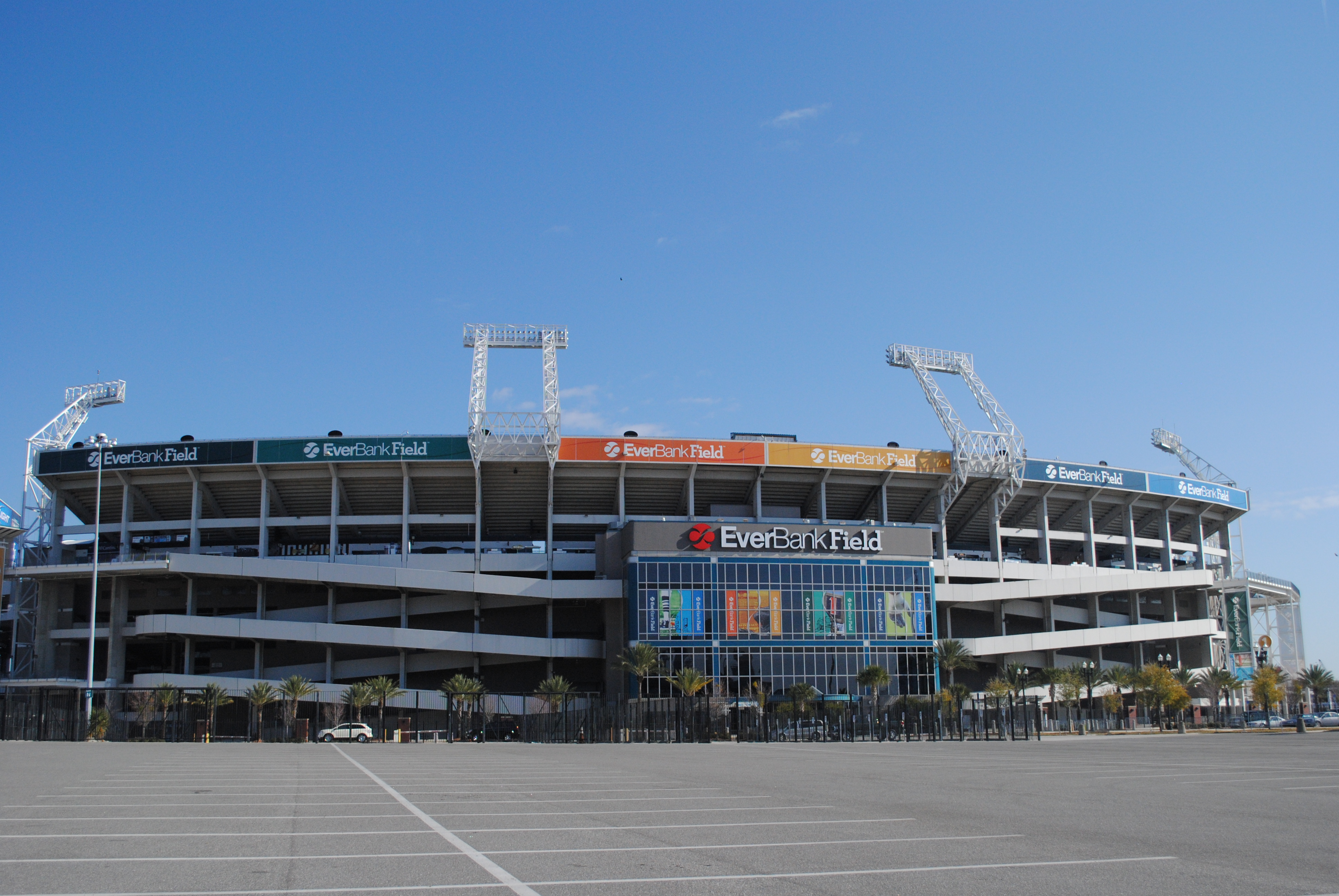 Different angle of stadium